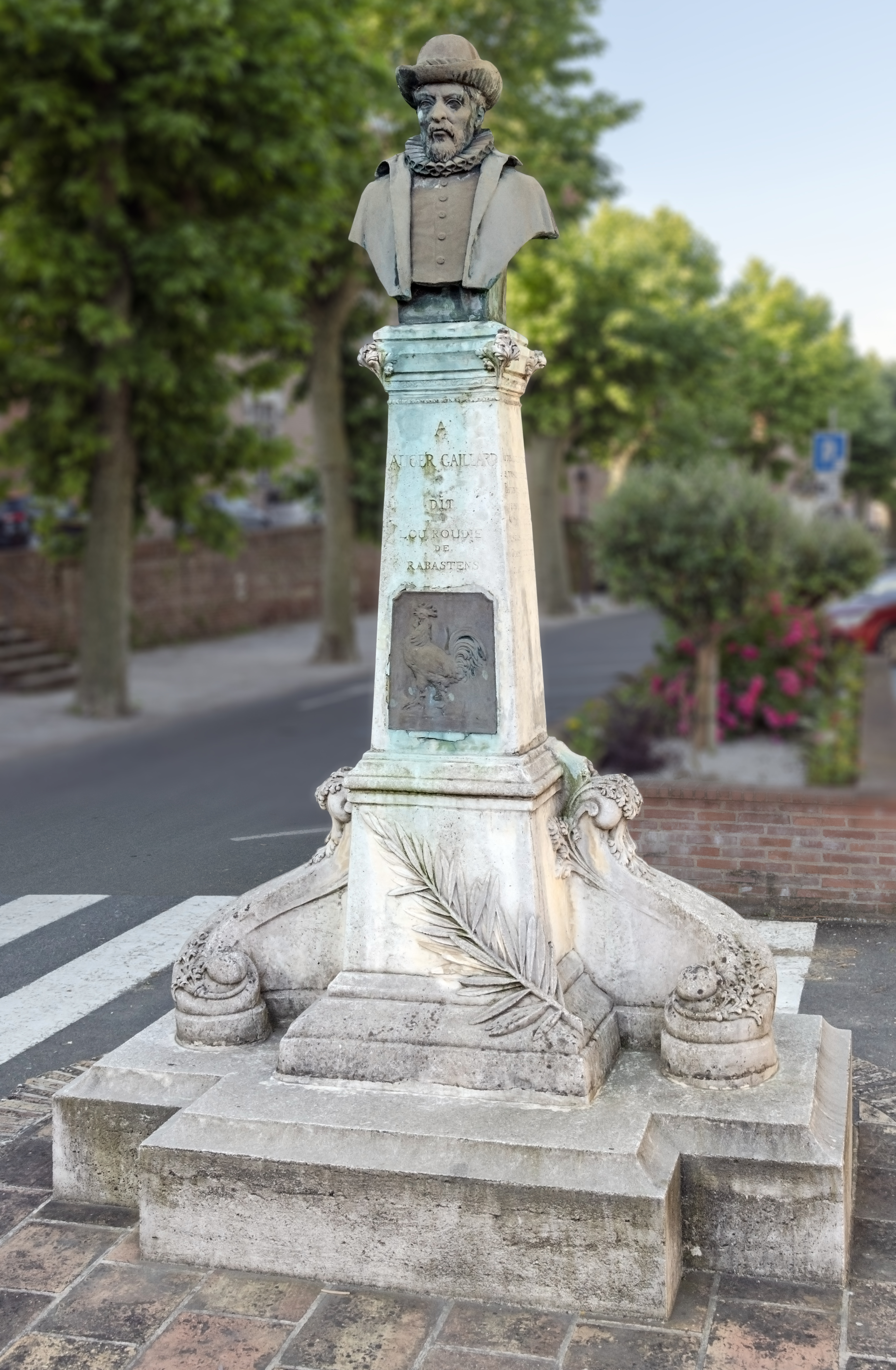 Monument to Auger Galhard in Rabastens in Tarn department